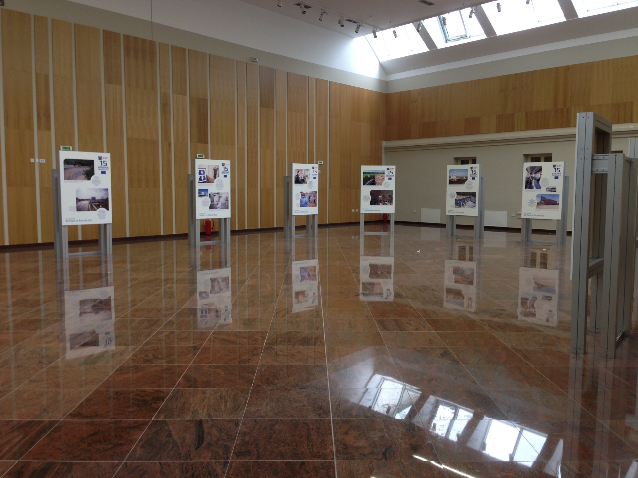 Officers' Club Exhibition Space in Niš